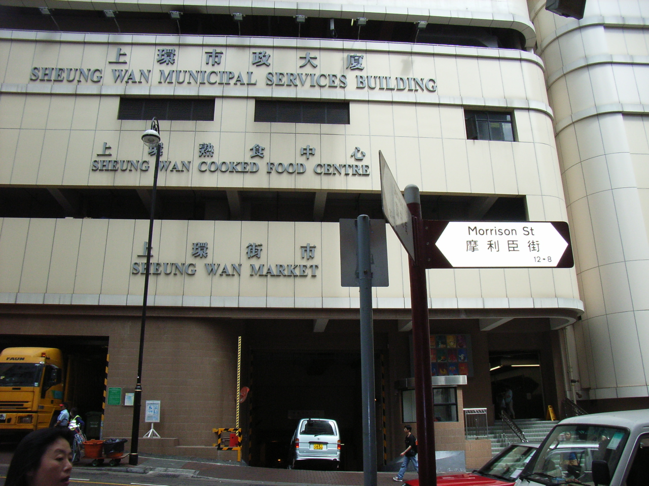 The current Sheung Wan Market in HK island - by Morrison15.